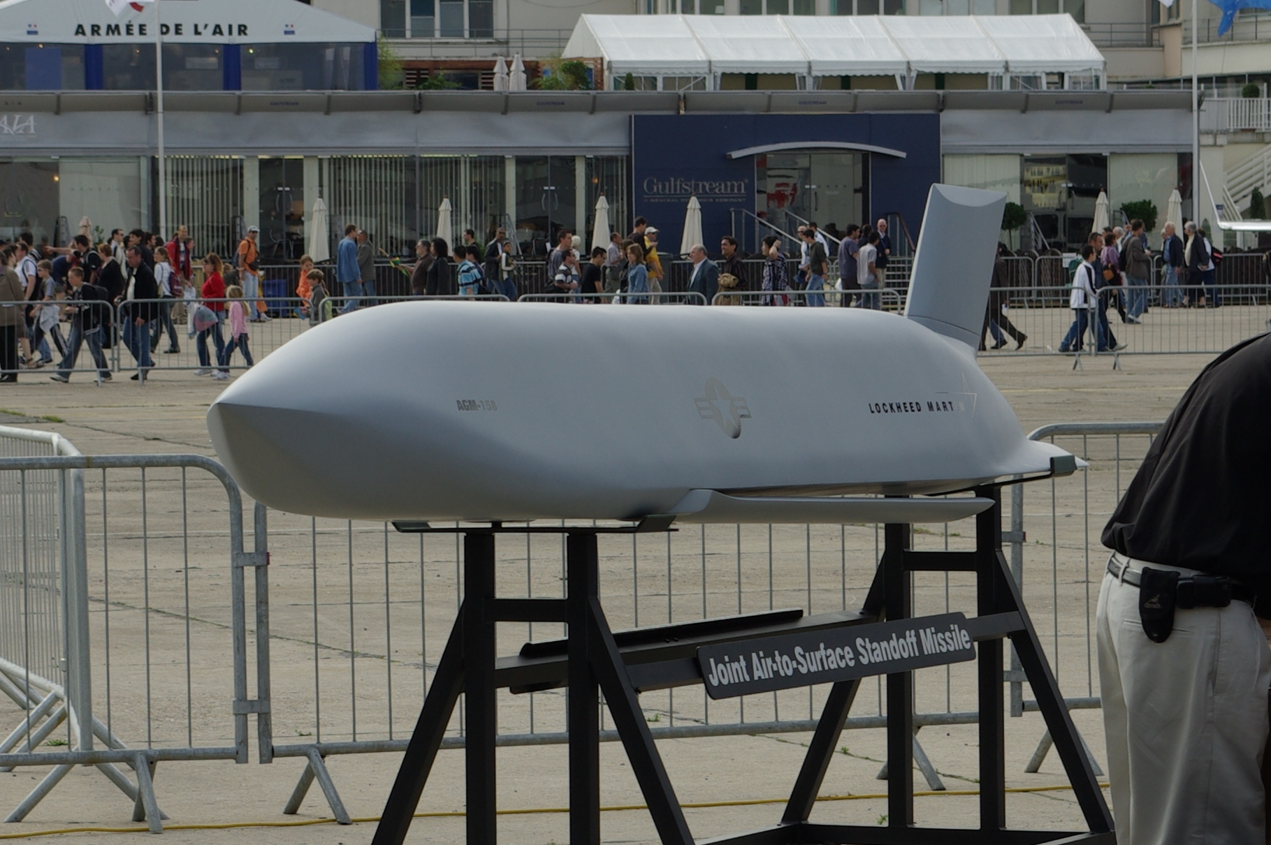 Standoff missile : Lockheed Martin AGM-158